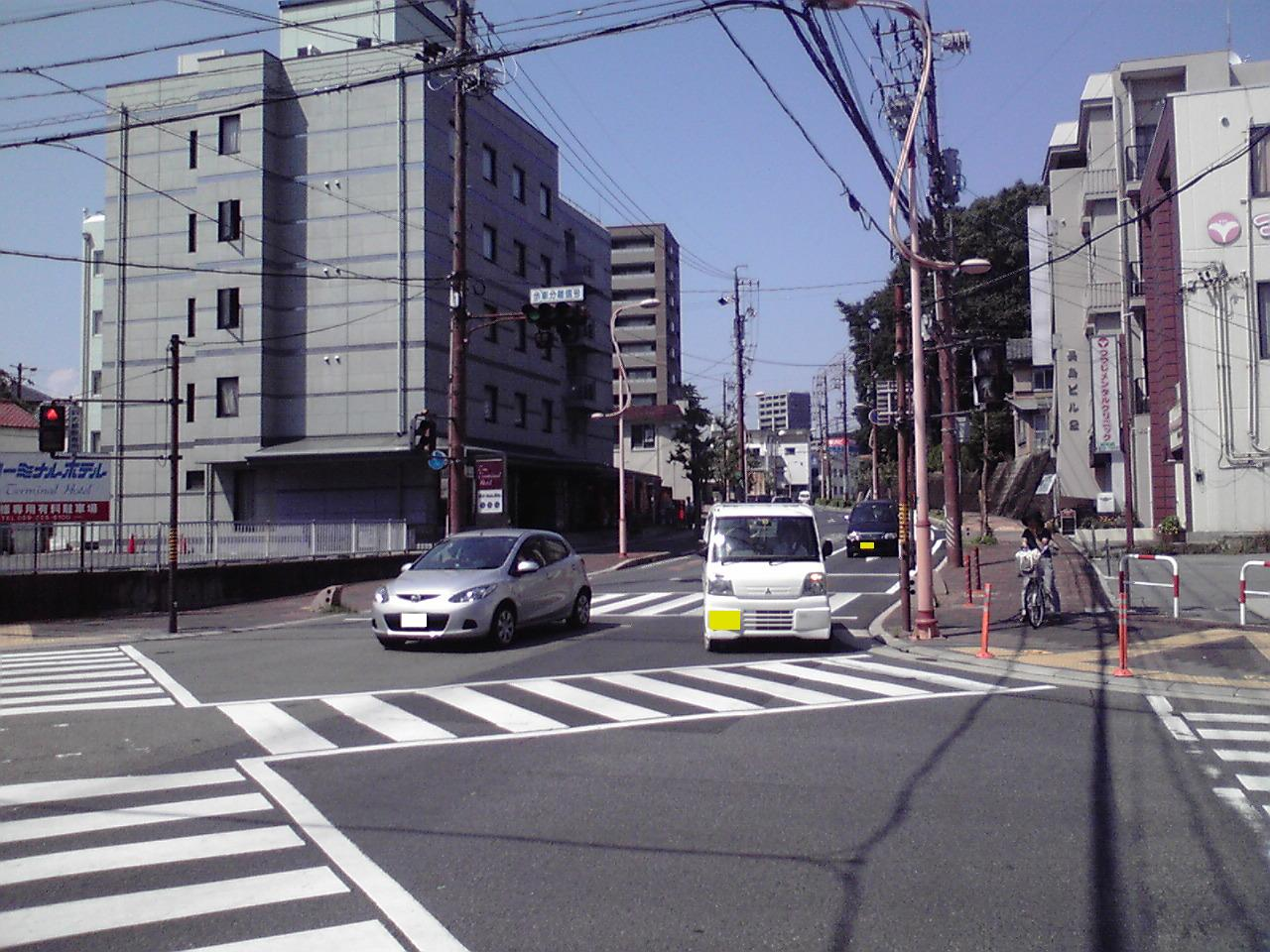 This is a landscape of Mie Prefectural Road No.10 Tsu-Seki Line in front of Tsu Kairaku Park.